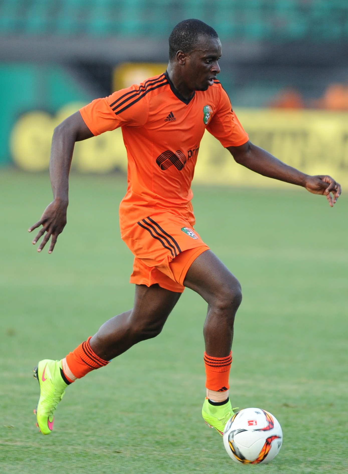 Danilo Moreno Asprilla